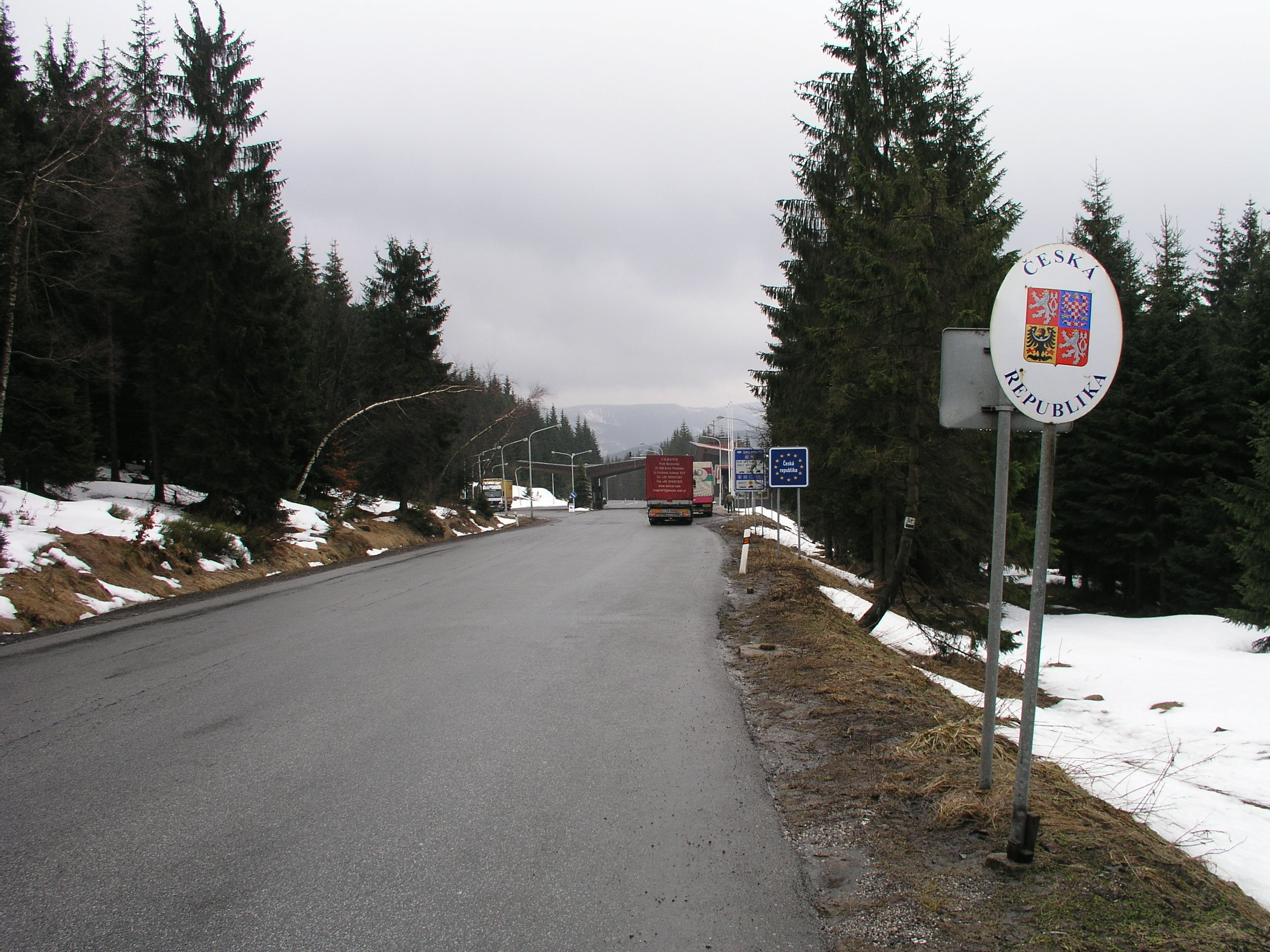 Bordercrossing PL-CZ Jakuszyce-Harrachov